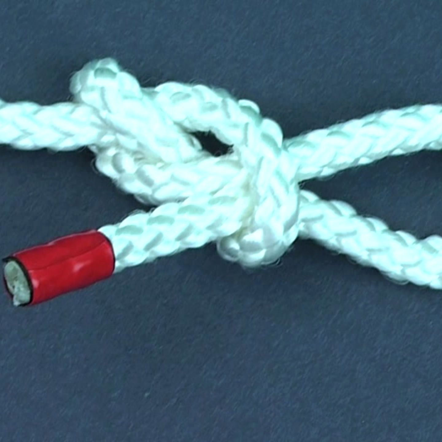 A figure-eight knot with draw-loop